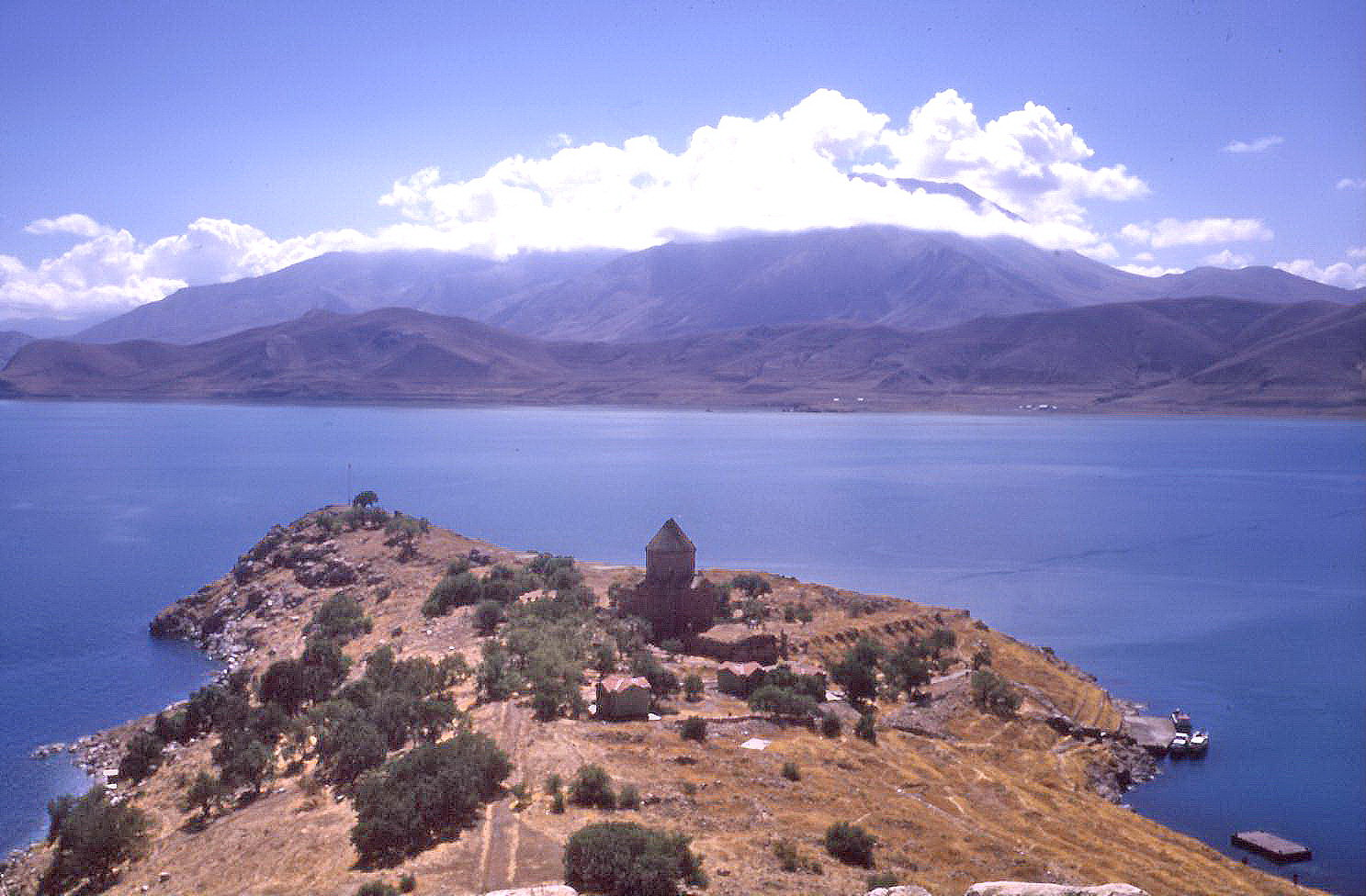 The Cathedral of the Holy Cross, an Armenian Apostolic church on Akhtamar island in Lake Van.